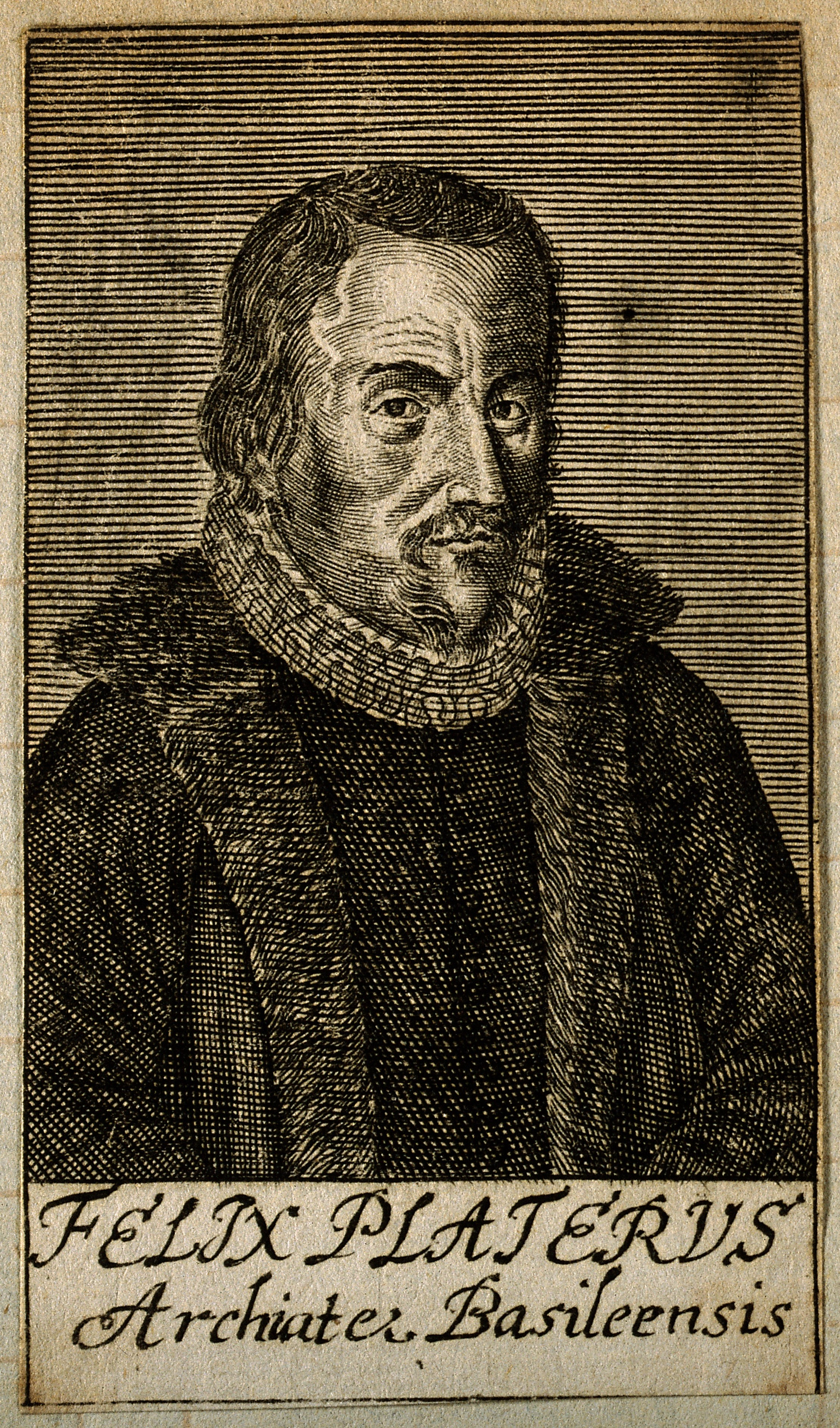 Felix Plater [Platter]. Line engraving, 1688. Iconographic Collections Keywords: portrait prints; Felix Plater; engravings